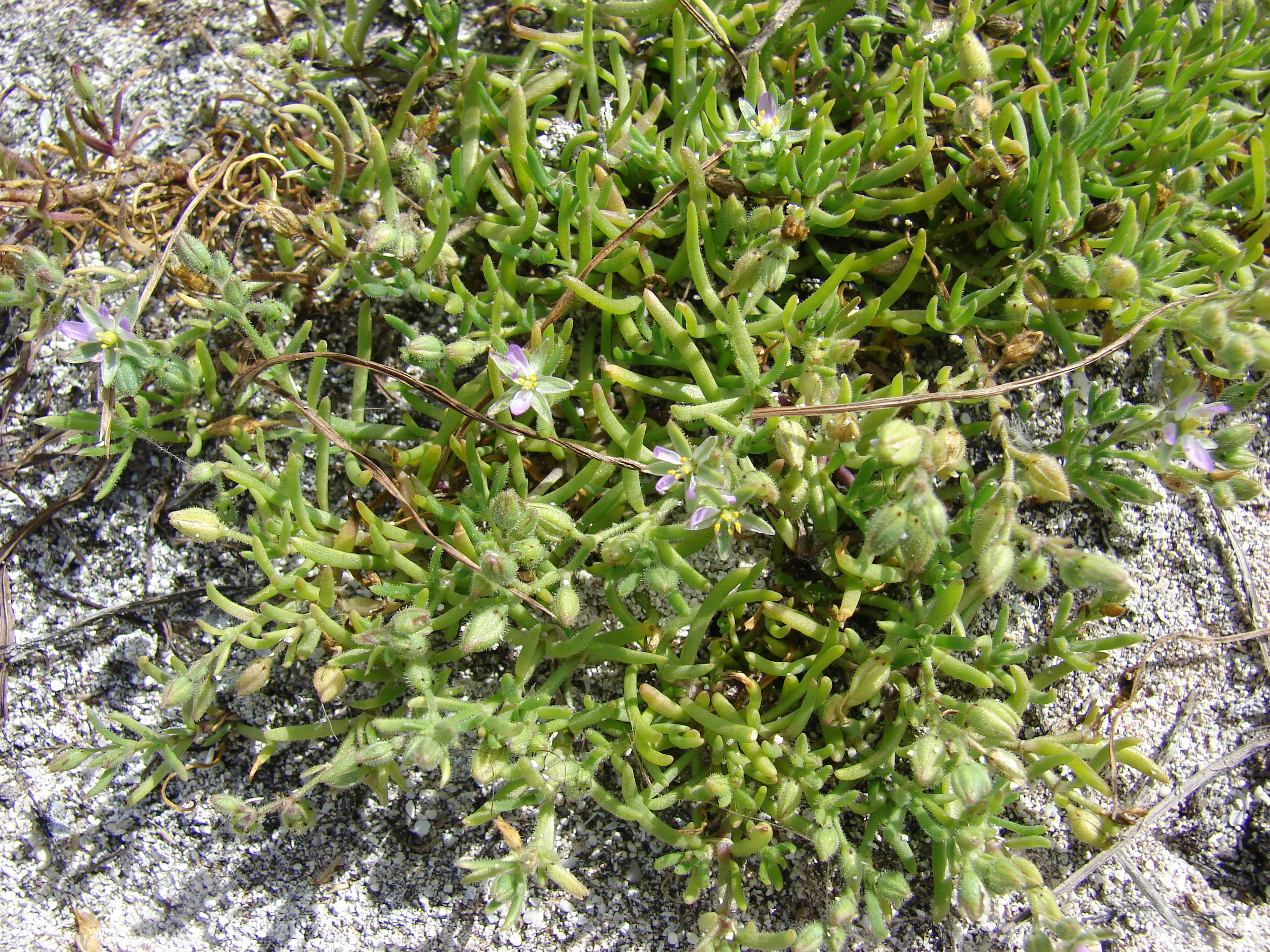 Spergularia marina (flowering habit). Location: Midway Atoll, Old Fuel Farm Sand Island